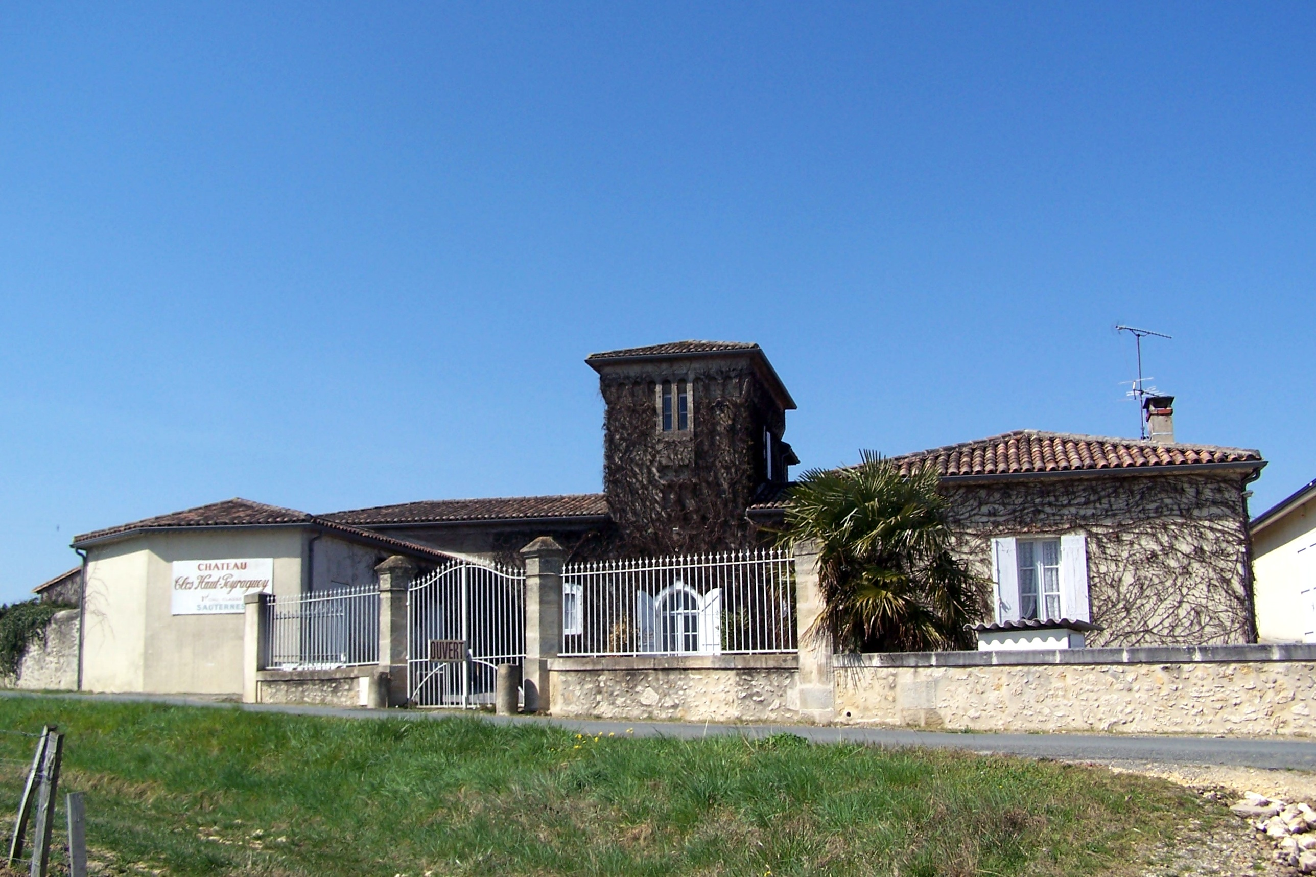 Château Clos Haut-Peyraguey in Bommes (Gironde, France)